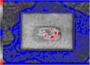 C-Sam Generated Image